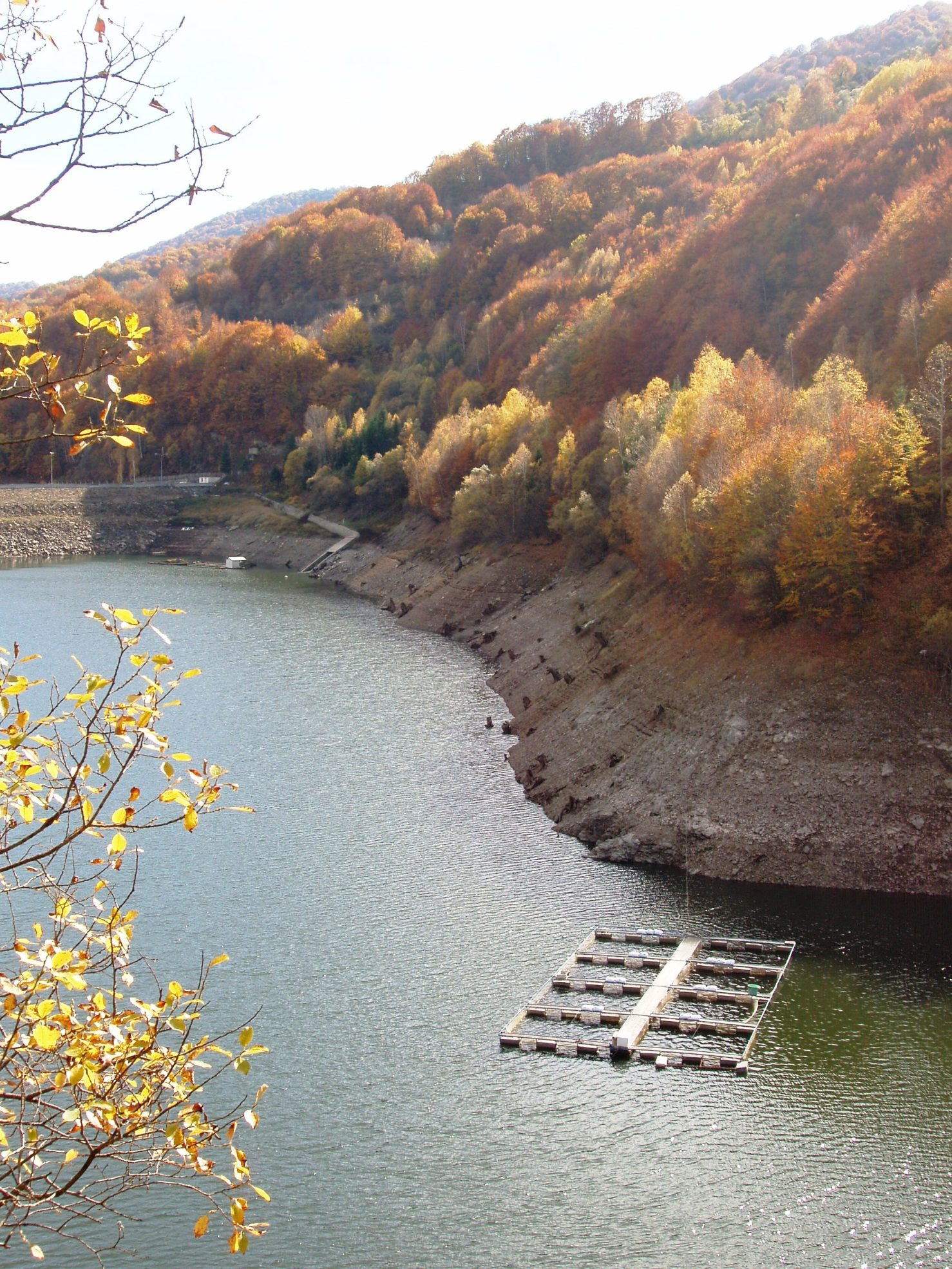 Лисинко Lake